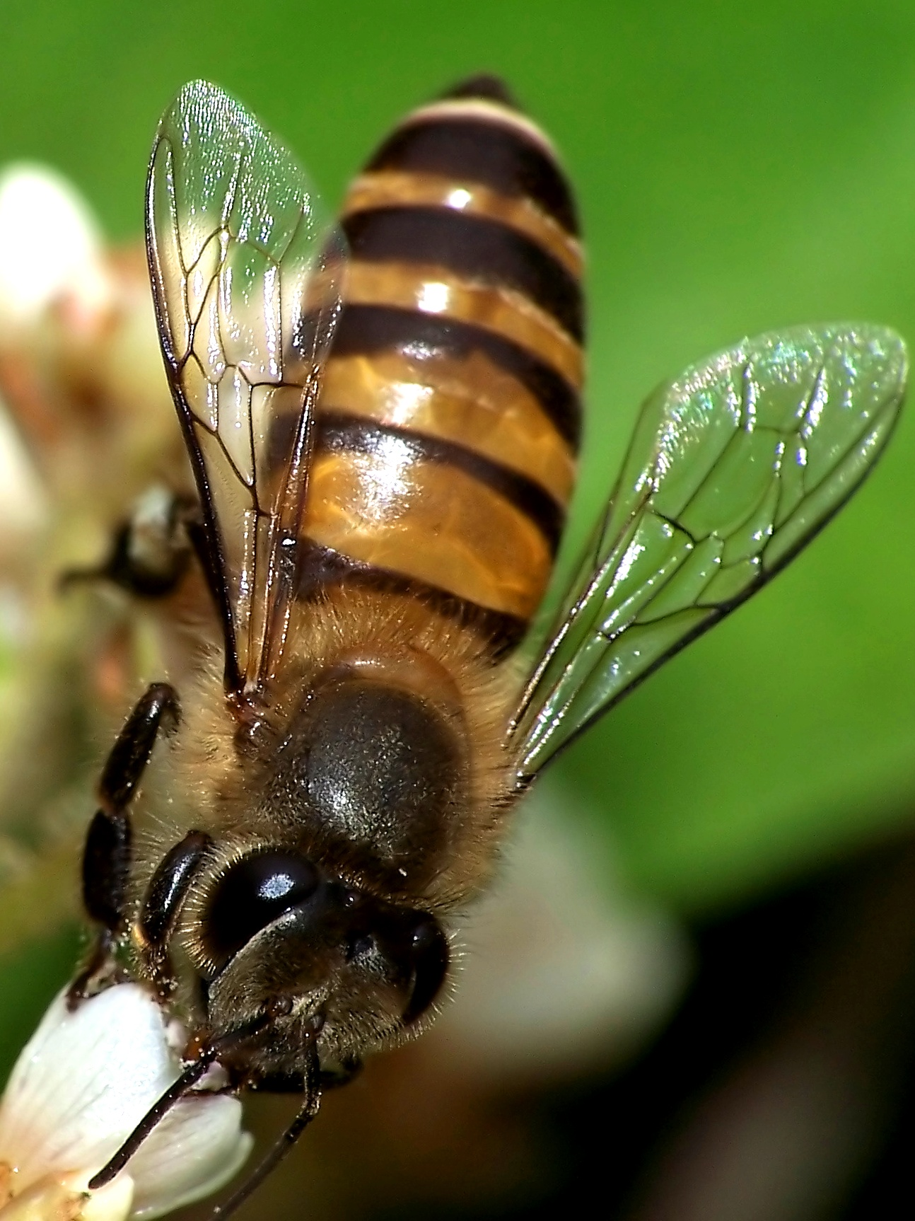 Saw near my home.